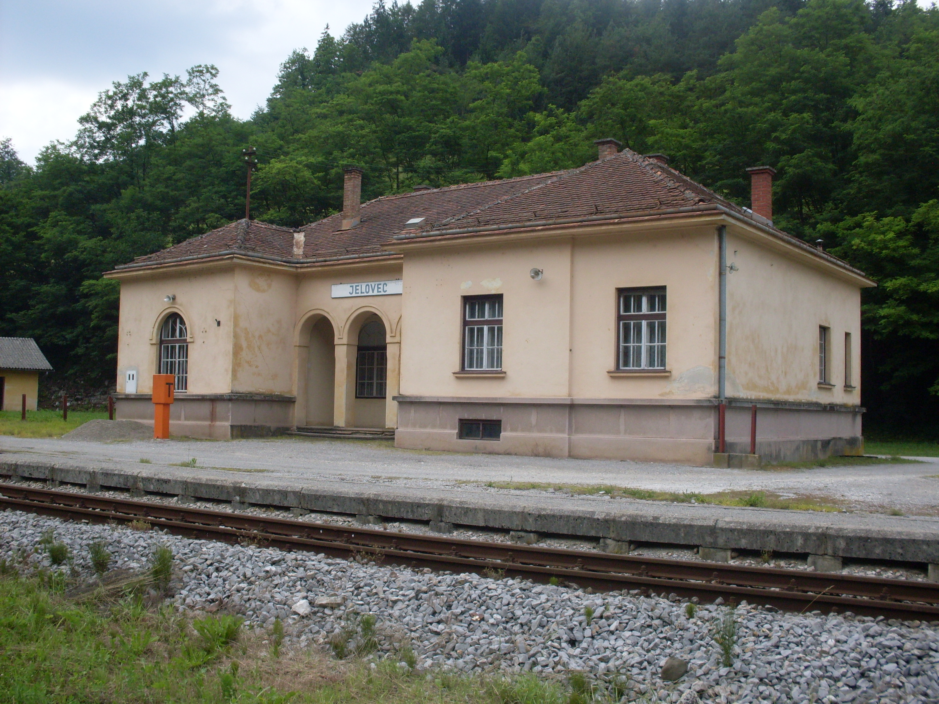 Railway halt JelovecSlovenčina: Železniško postajališče Jelovec